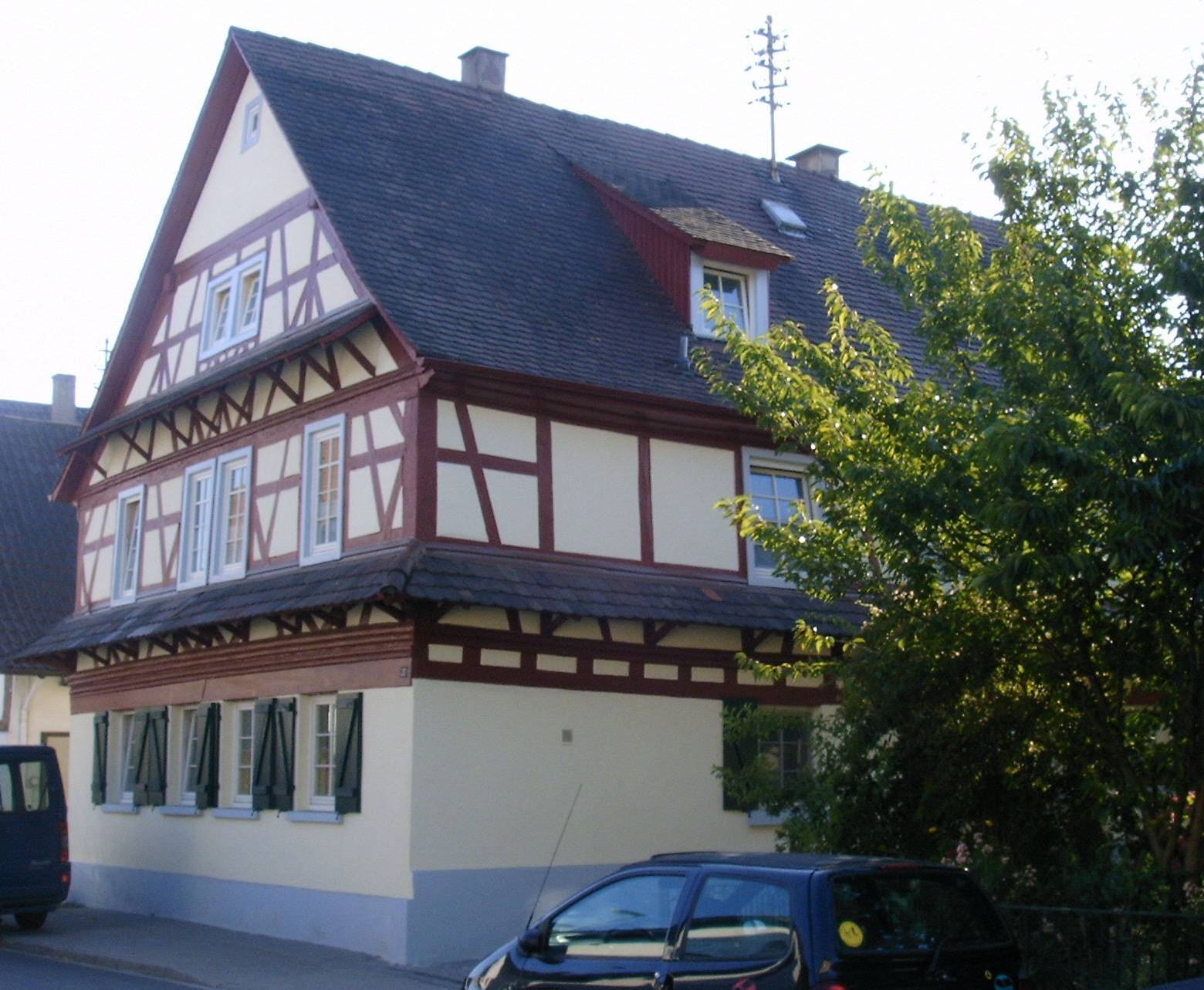 Historical building (former school building) Wilhelmstraße 20 in Ottersdorf, part of Rastatt, Germany